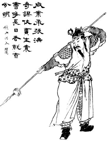 Qing dynasty portrait of Zhang Xiu